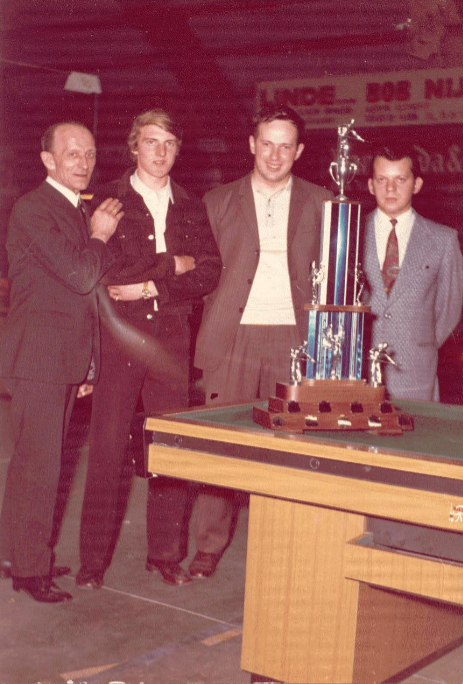 Leo Taelman